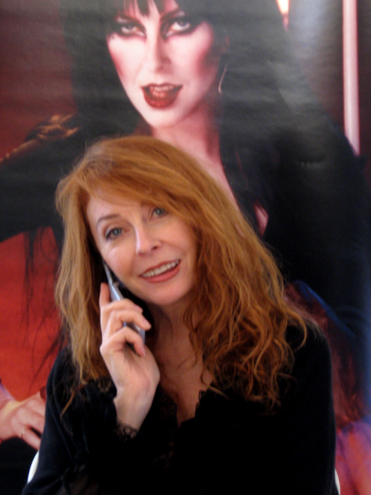 American actress and horror movie hostess Cassandra Peterson, better known as Elvira, Mistress of the Dark.